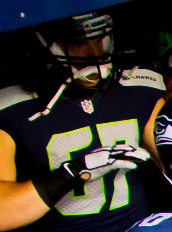 Raiders at Seahawks